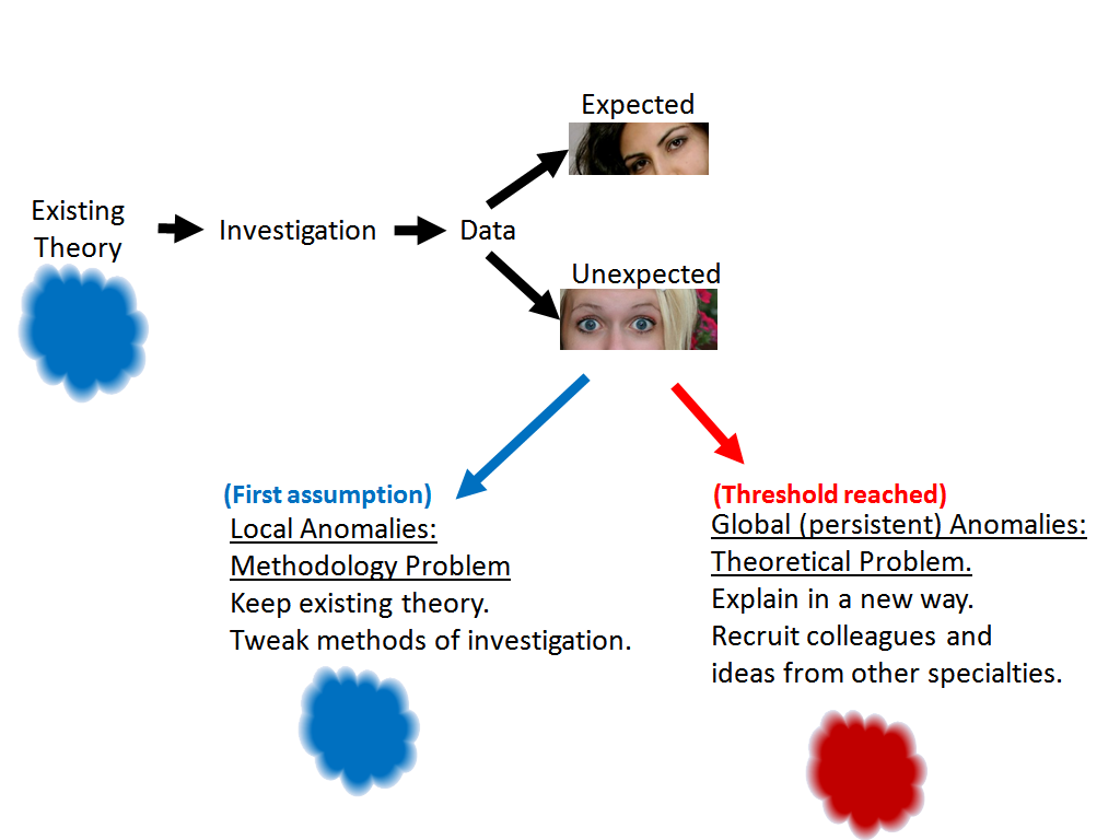 Kevin Dunbar and Jonathan Fugelsang describe how luck can play a particular role in certain stages of the scientific method. With careful controls, anomalies that may not fit existing theory are more easily identified. At first scientists tend to blame human error: they revise, relatively without assistance, their methods. If the number of unexpected findings rise and reach a threshold, the existing theory no longer seems adequate. At this point scientists tend to collaborate more with thinkers who can bring ideas or analogies from other specialities. This figure uses two images from WikiCommons: File:BLUELINE.jpg, and File:Beauty Girl Surprise.jpg Otherwise this figure is entirely my own work, based on the ideas of Dunbar and Fugelsang in the following paper: Dunbar, K., & Fugelsang, J. (2005). Causal thinking in science: How scientists and students interpret the unexpected. In M. E. Gorman, R. D. Tweney, D. Gooding & A. Kincannon (Eds.), Scientific and Technical Thinking (pp. 57-79). Mahwah, NJ: Lawrence Erlbaum Associates.